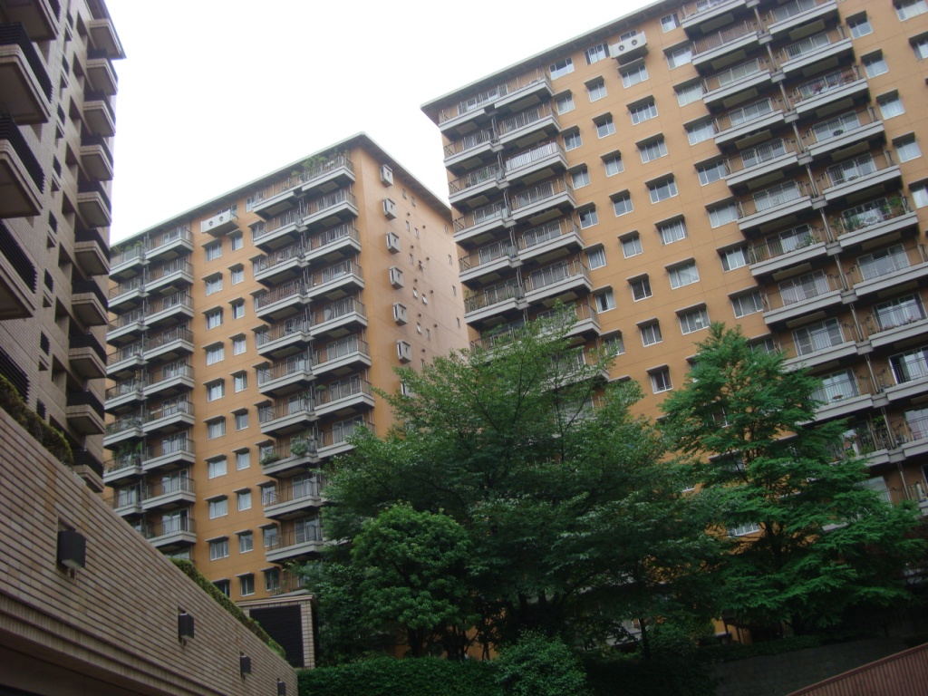 The West Hill section, Hiroo Garden Hills complex, Shibuya city, Tokyo